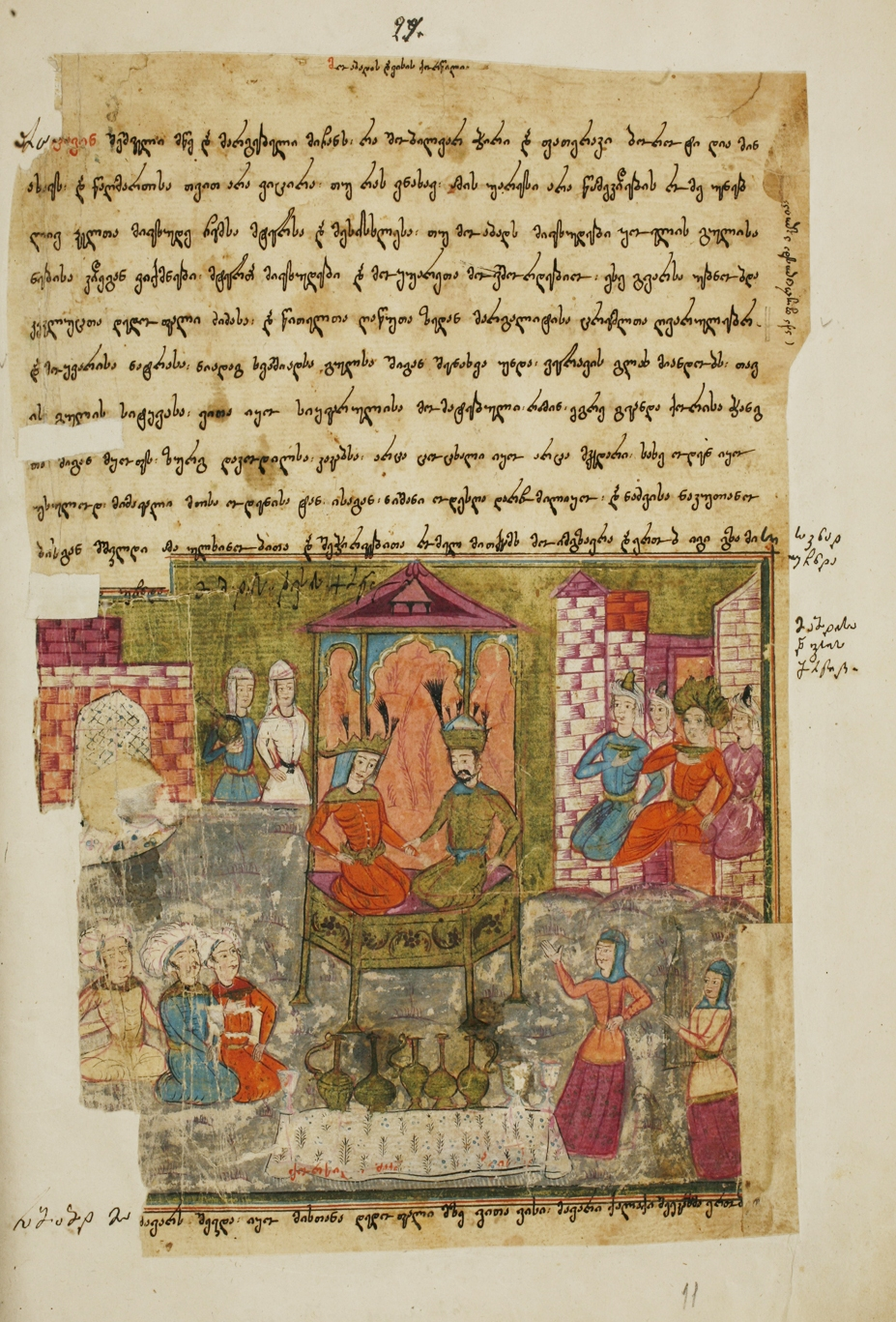 A miniature from the 1729 manuscript (S3702) of Visramiani, a Georgian prose adaptation of the Persian love story Vis and Rāmin. National Cenre of Manuscripts, Tbilisi, Georgia.